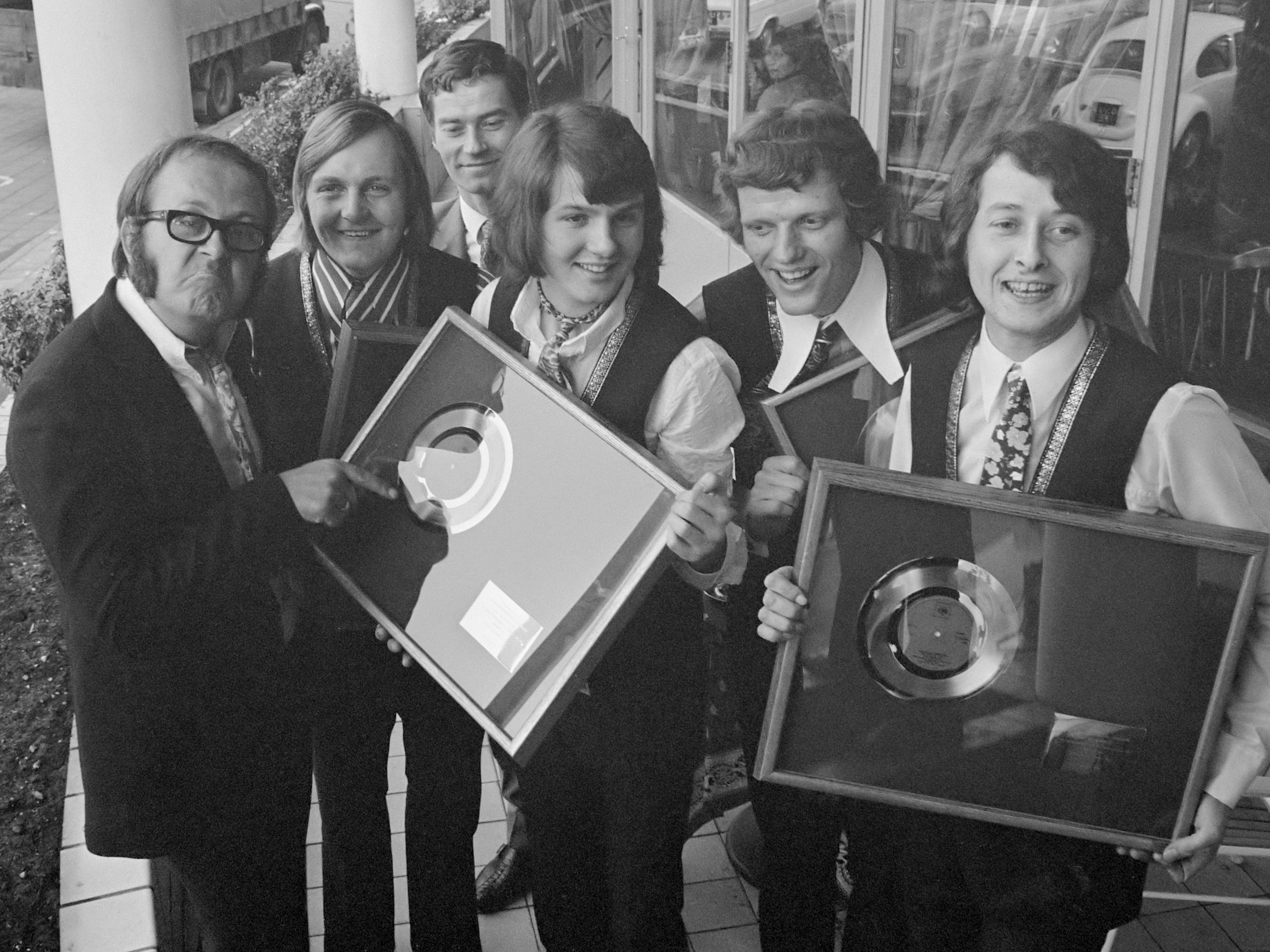 Popgroep The Shuffles ontvangt gouden plaat voor "Cha la la, I need you" in hotel Gooiland te Hilversum. The Shuffles met plaat, links Joost den Draaier (pseudoniem voor Willem van Kooten) 12 februari 1970